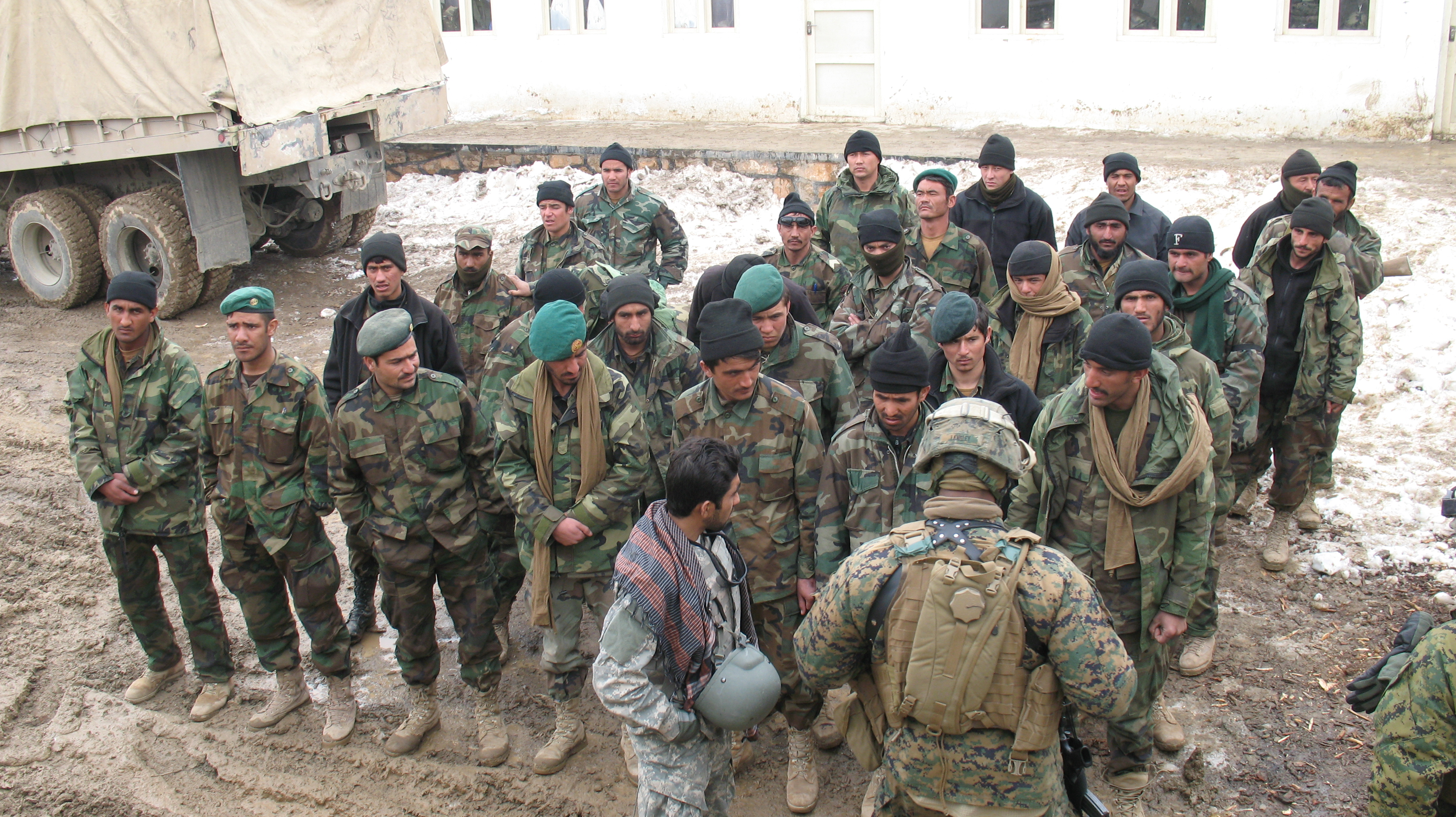 ETT RCAC-C commander inspects ANA Askars (soldiers) from the 1st BDE, 201st Corps